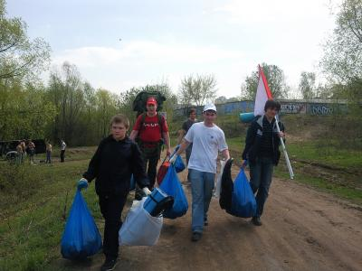 Чистый берег